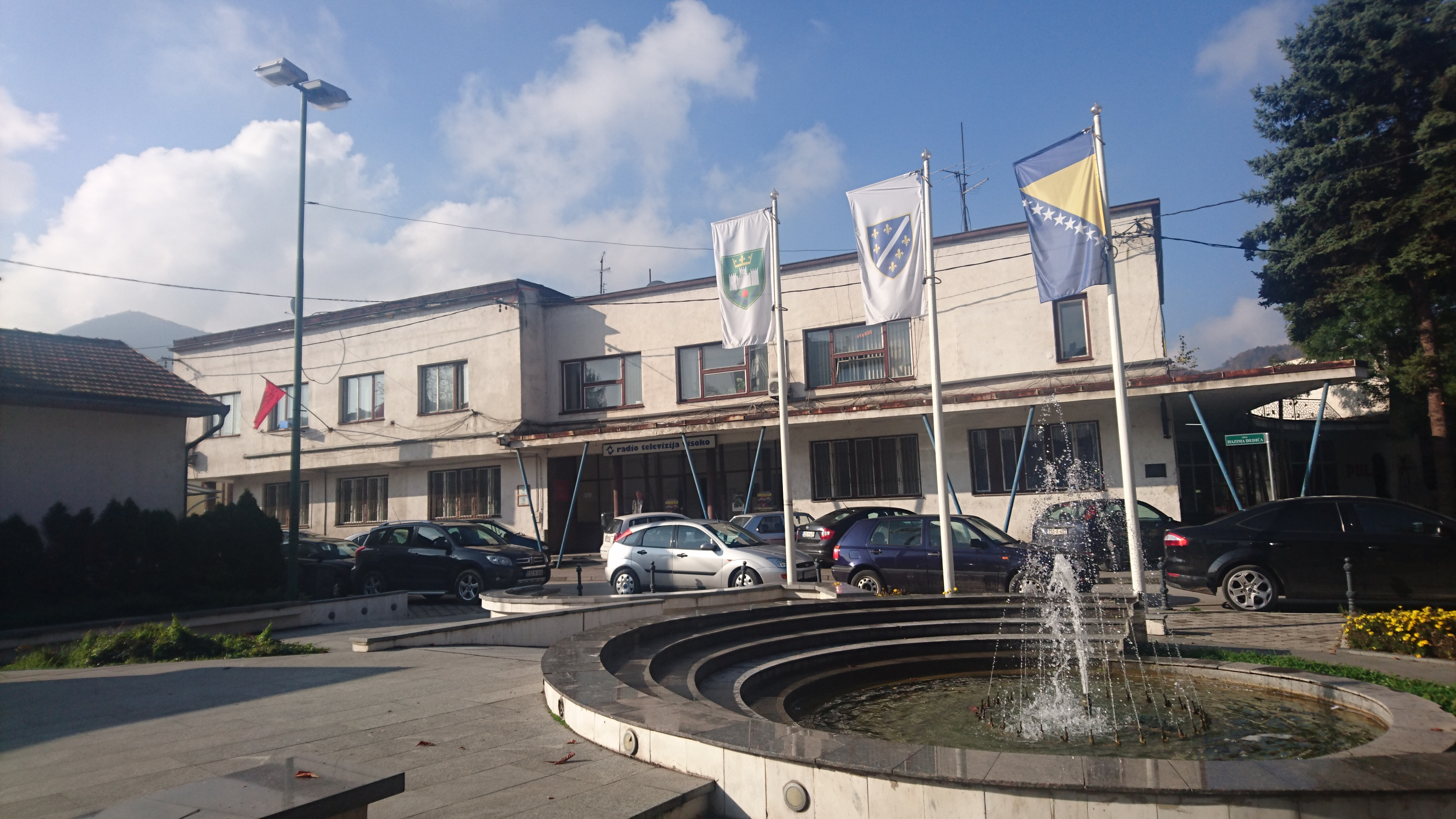 The buling of the RTV Visoko, a local radio and television station.